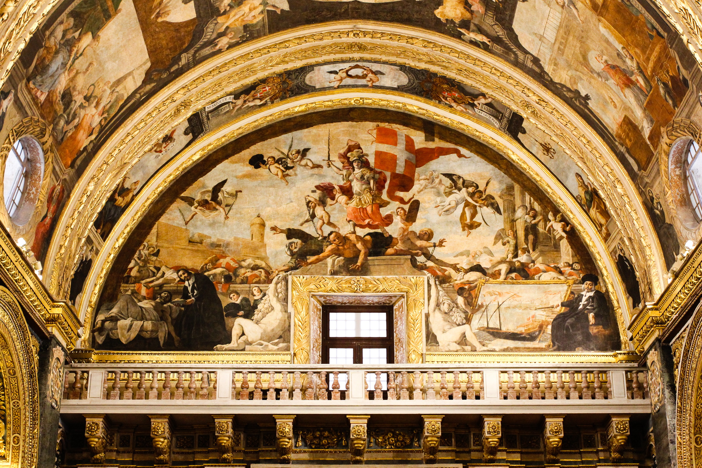 The Allegory of the Triumph of the Order of St John, above the entrance to St John's Co Cathedral, Valletta, Malta